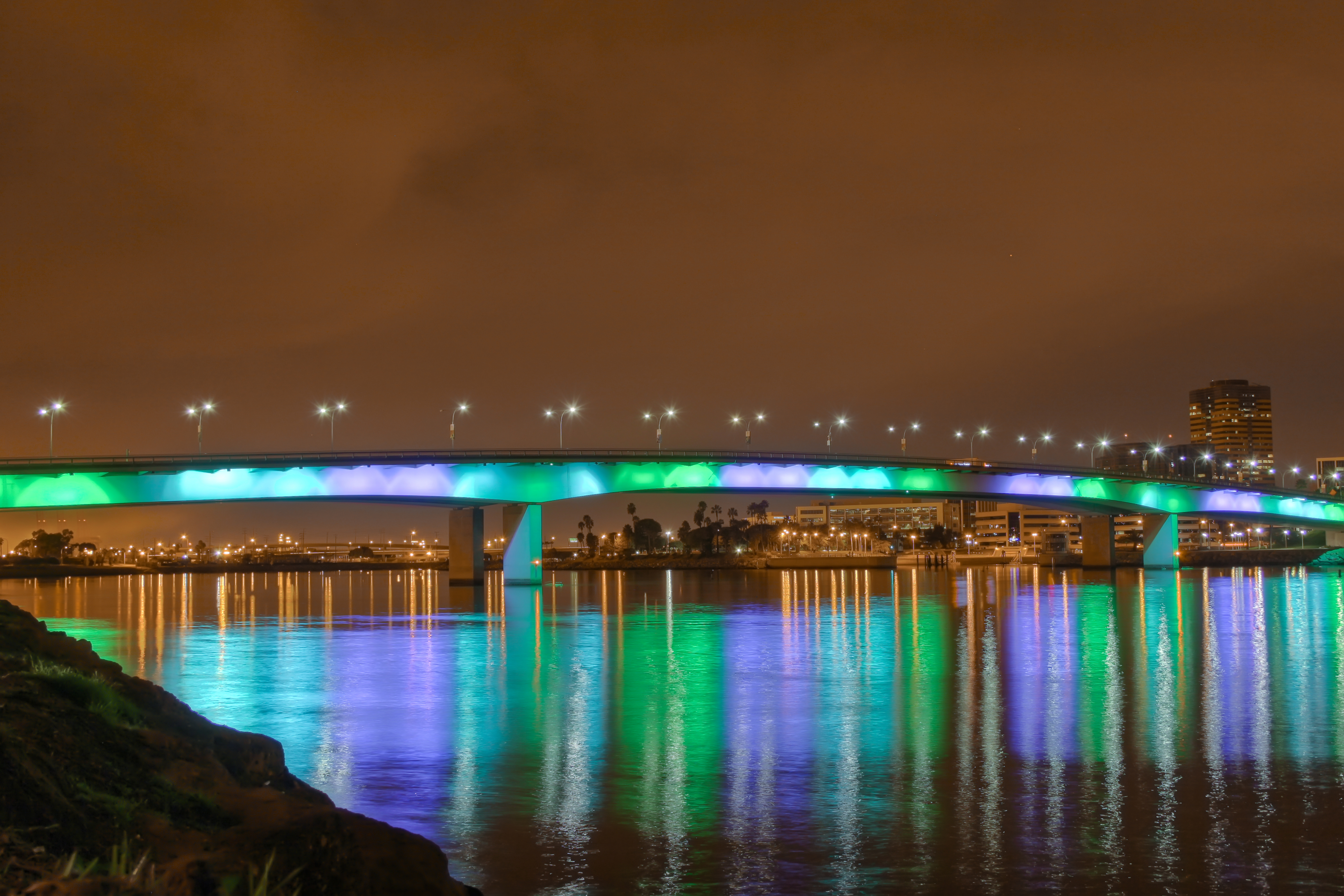 The Midnight